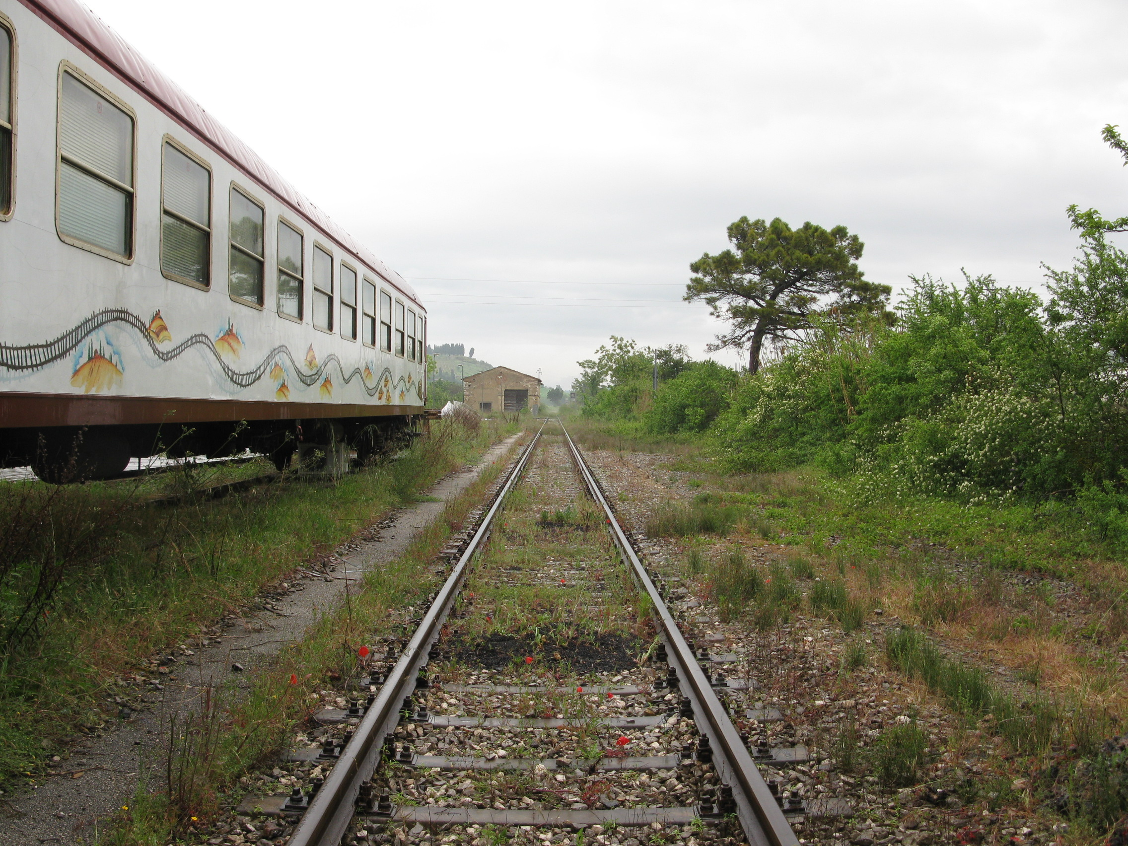 Trenonatura carriages waiting in Torrenieri-Montalcino railway station